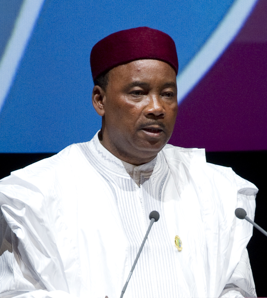 H.E. Mr. Mahamadou Issoufou, President of Niger speaking at the UNCTAD XIII Opening Ceremony